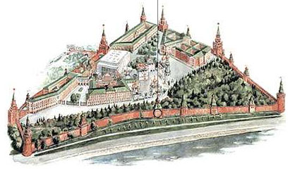 Overview map of the Moscow Kremlin. Location of Taynitskaya Tower marked.